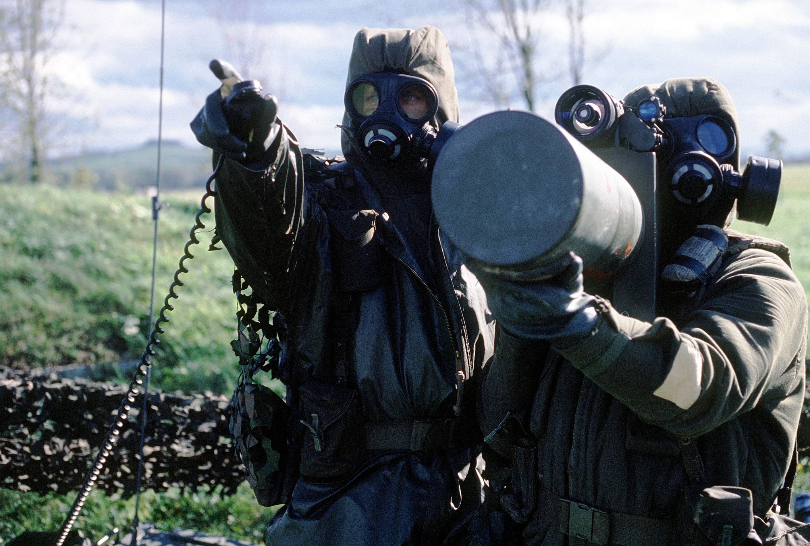 Gunners Dave Archer and Paul Van Helvert, both with the Canadian 129th Anti-Aircraft Defense Battery, stand by at a Blowpipe anti-aircraft guided missile system position on the edge of the base during exercise Cornet Phaser, a NATO rapid deployment exercise conducted under simulated wartime conditions. The men are wearing nuclear, chemical and biological protective gear (including C3 gas mask).